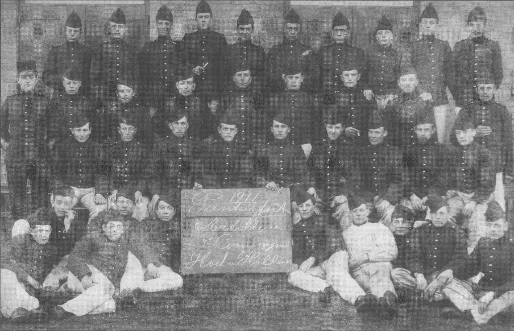 Group of soldiers, stationed at fort at the Hook of Holland, 1911